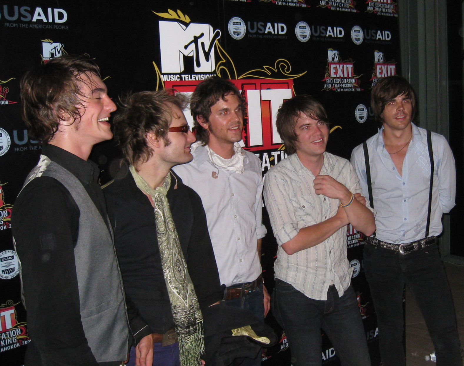 The Click Five at Backstage of MTV Exit Live In BKK